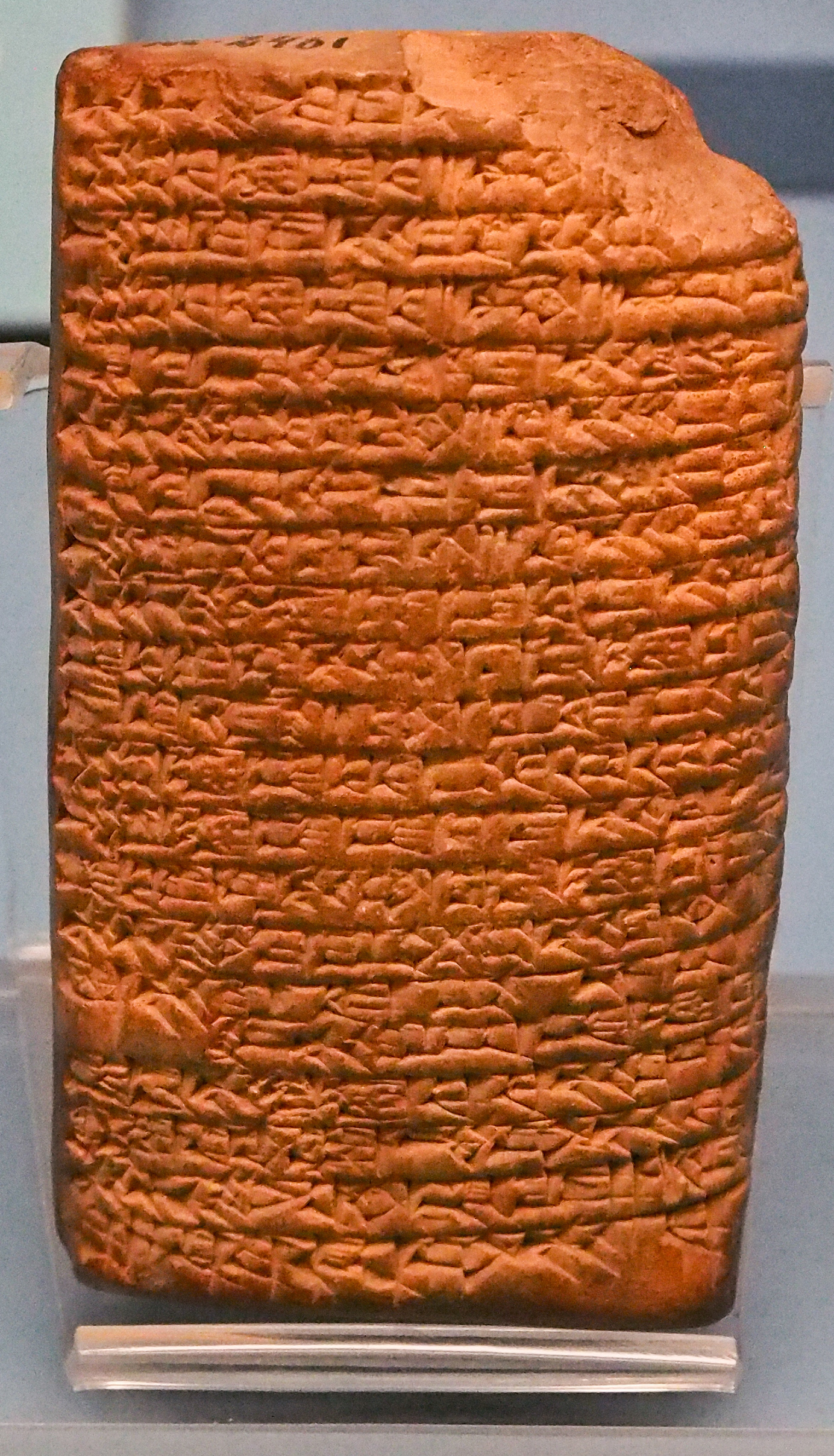 A cuneiform tablet (L.2461) on display at the Istanbul Museum of the Ancient Orient.